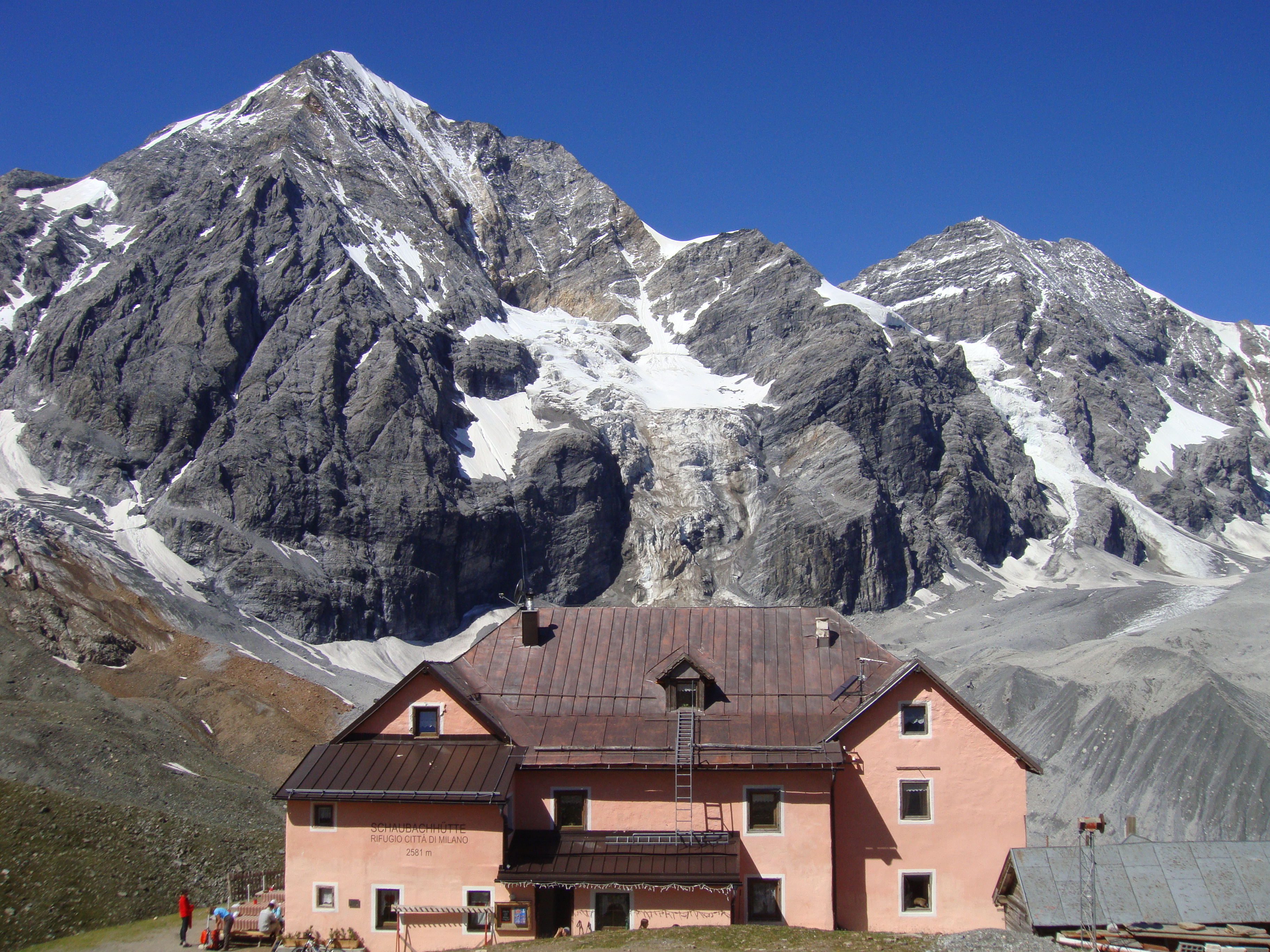 Città di Milano Hut (2581 m), Solda, Italy.